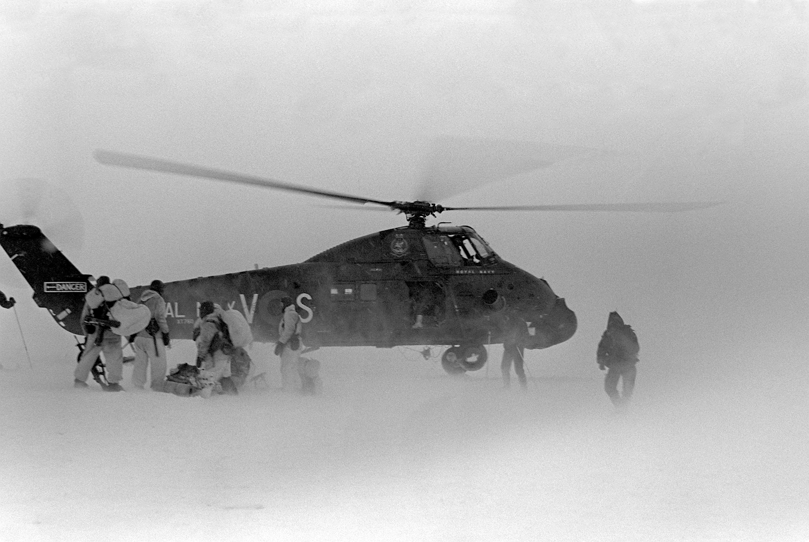 Norwegian military personnel board a Royal Navy Westland Wessex HU5 helicopter (s/n XT760) of No. 846 Naval Air Squadron during a joint forces cold weather airlift exercise on 1 February 1981.